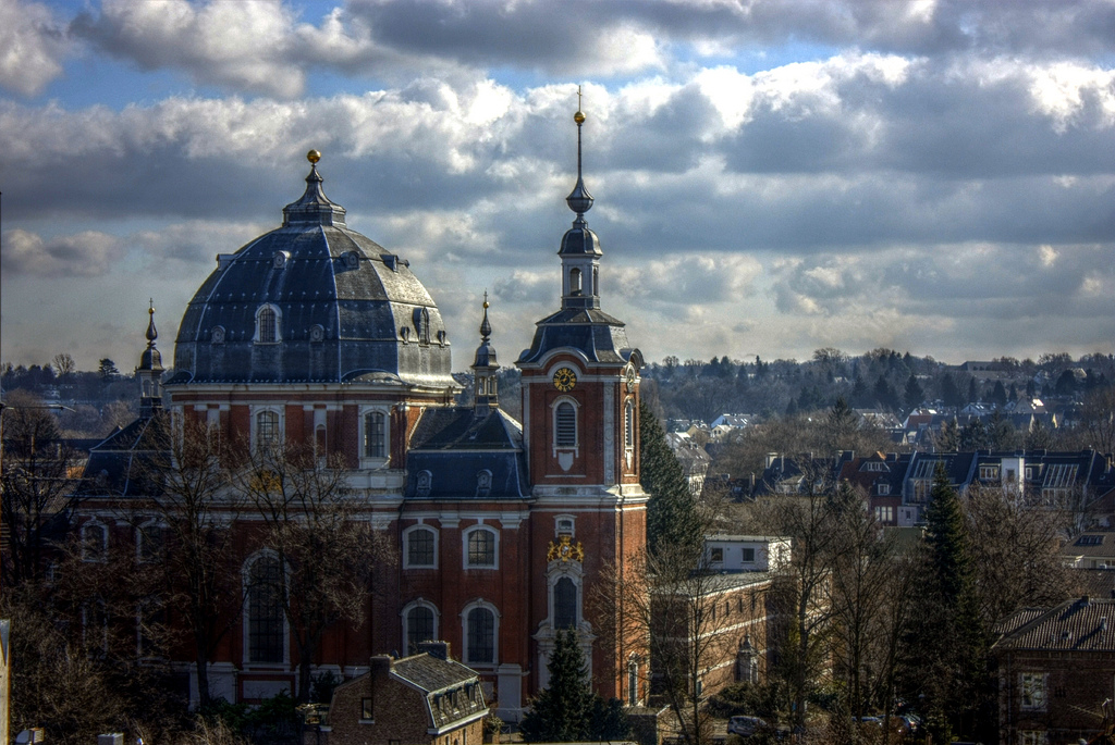 Same church, different day. Qtpfsgui 1.8.12 tonemapping parameters: Operator: Mantiuk Parameters: Contrast Mapping factor: 0.09 Saturation Factor: 1.512 PreGamma: 0.667